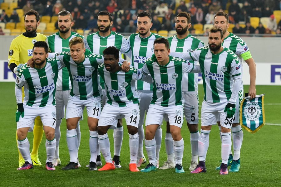 Konyaspor 2016-17 Squad